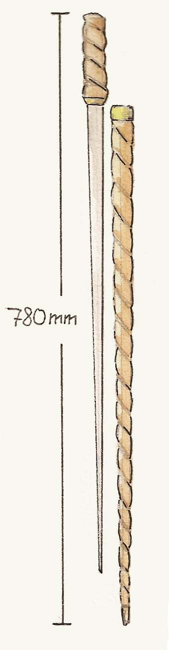 An aquarel drawing/painting of a swordstick carried by Robert Burns (1759-1796). The swordstick is on exhibition in Robert Burns House, Dumfries.